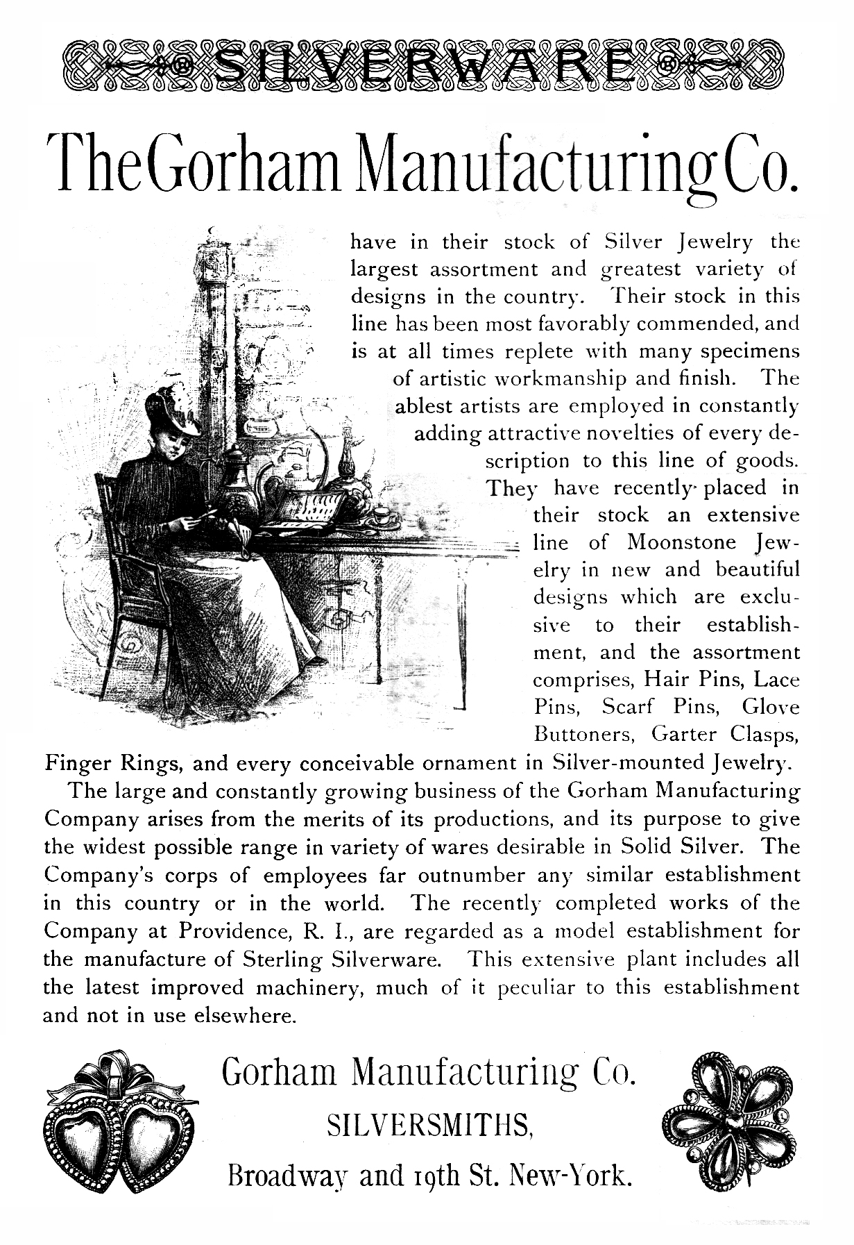 1890 Gorham advertisement lithograph